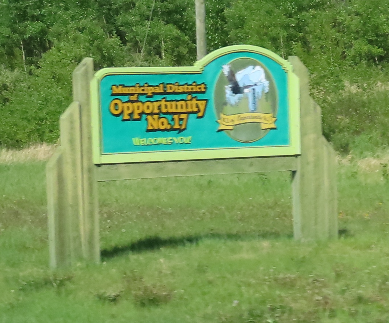 Sign welcoming northbound drivers along Highway 88 to the M.D. of Opportunity, Alberta.